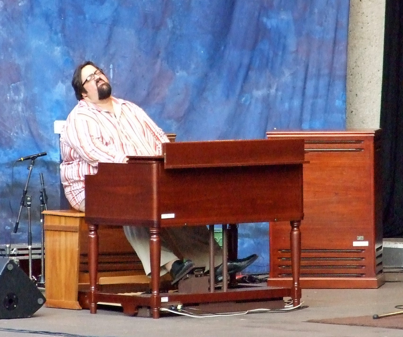 Joey DeFrancesco, at "Jazz im Palmengarten", Frankfurt am Main